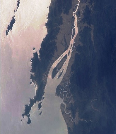 Mouth of the Dawei (Tavoy) River. The South Moscos Islands can be seen on the upper left side of the image